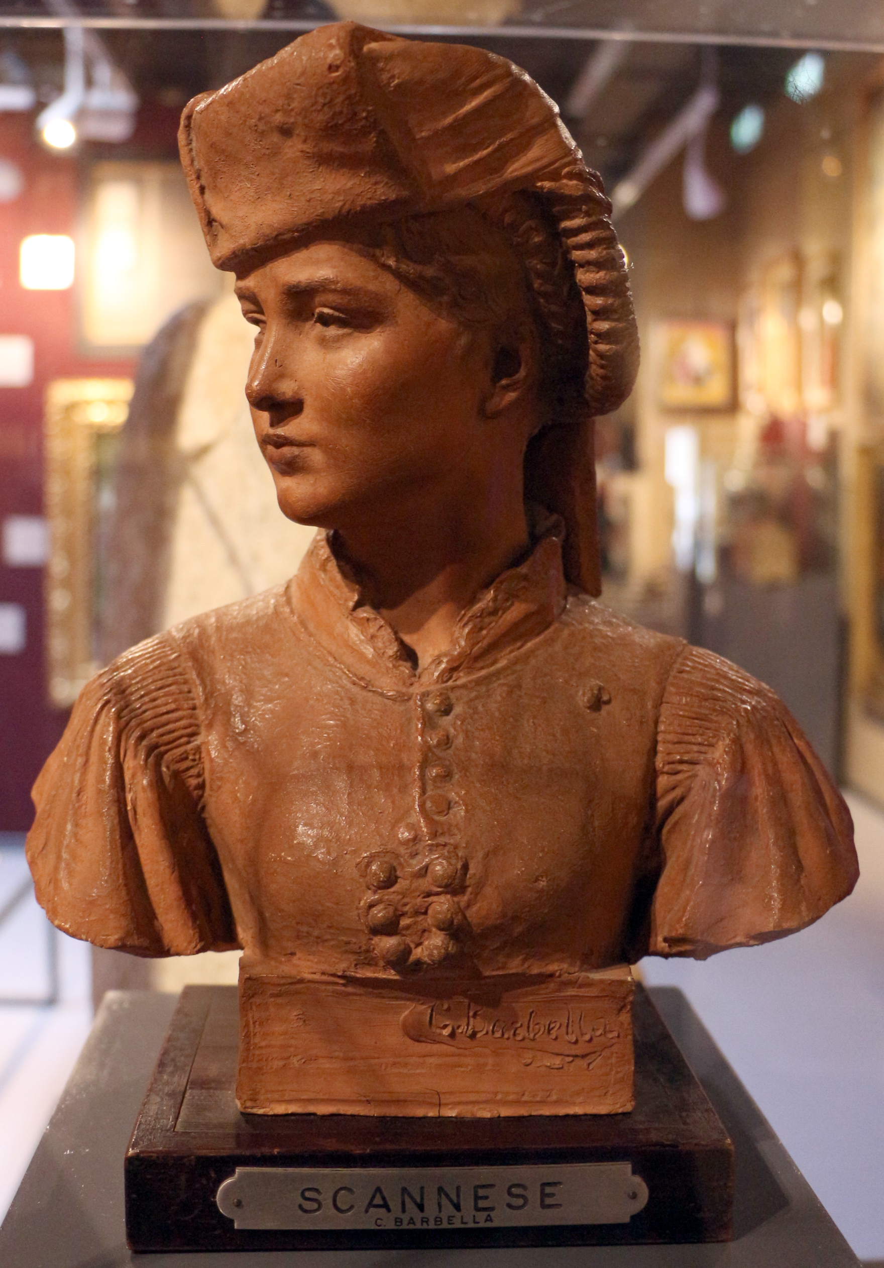 Scannese by Costantino Barbella.